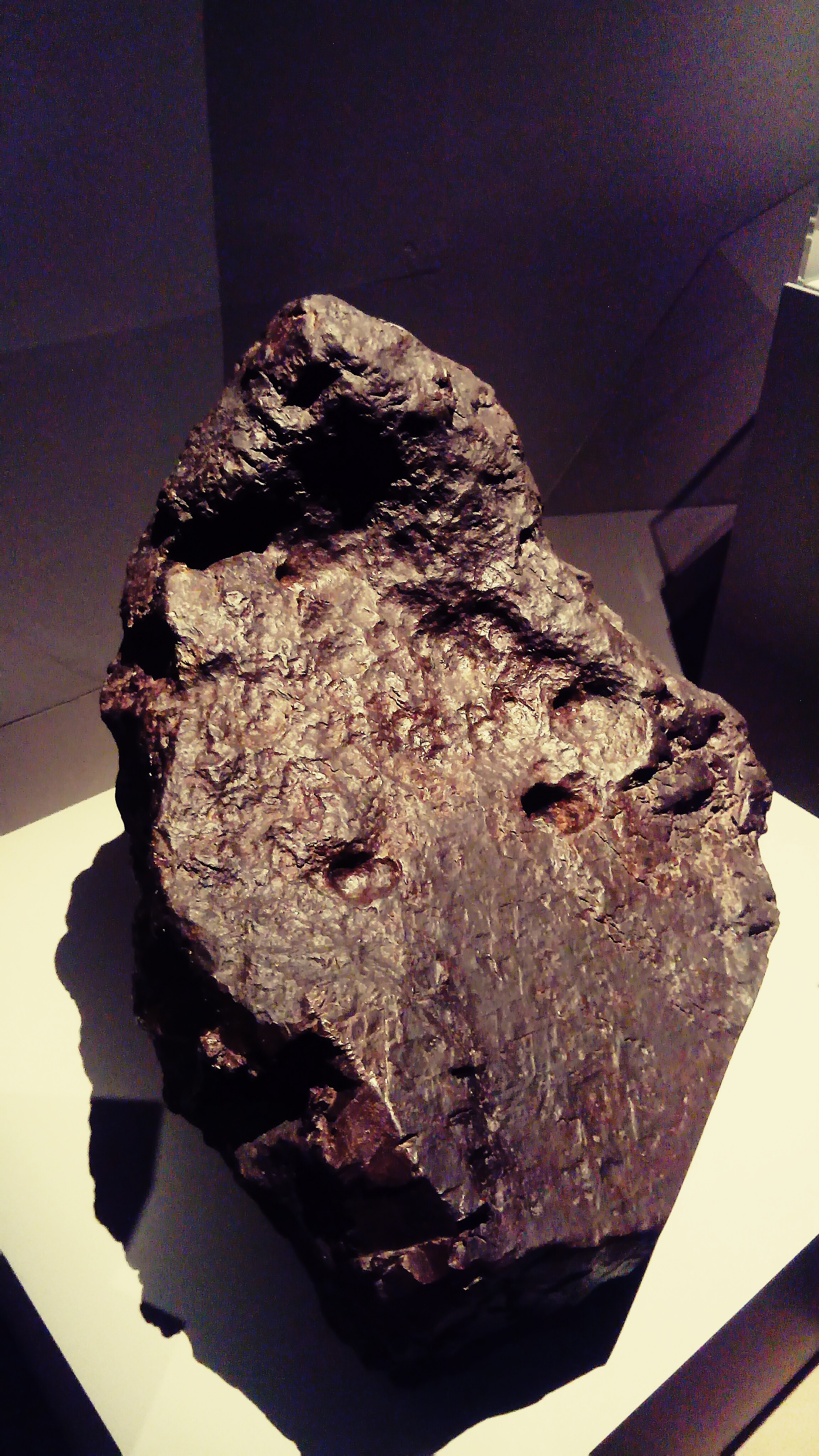 "La Caille" is the biggest meteorites that ever fell in France. It's a 626-kilogram iron meteorite found by a shepherd in the 17th century. La Caille was used as a an anvil, then a church bench, before it was sent in 1828 to the Muséum d'Histoire naturelle in Paris. The village received a clock in exchange. The picture was taken during the exhibition "Meteorites, between Earth and Sky" in the National Museum of Natural History in the Jardin des Plantes of Paris. The exhibition was held between October 18th 2017 and June 10th 2018.